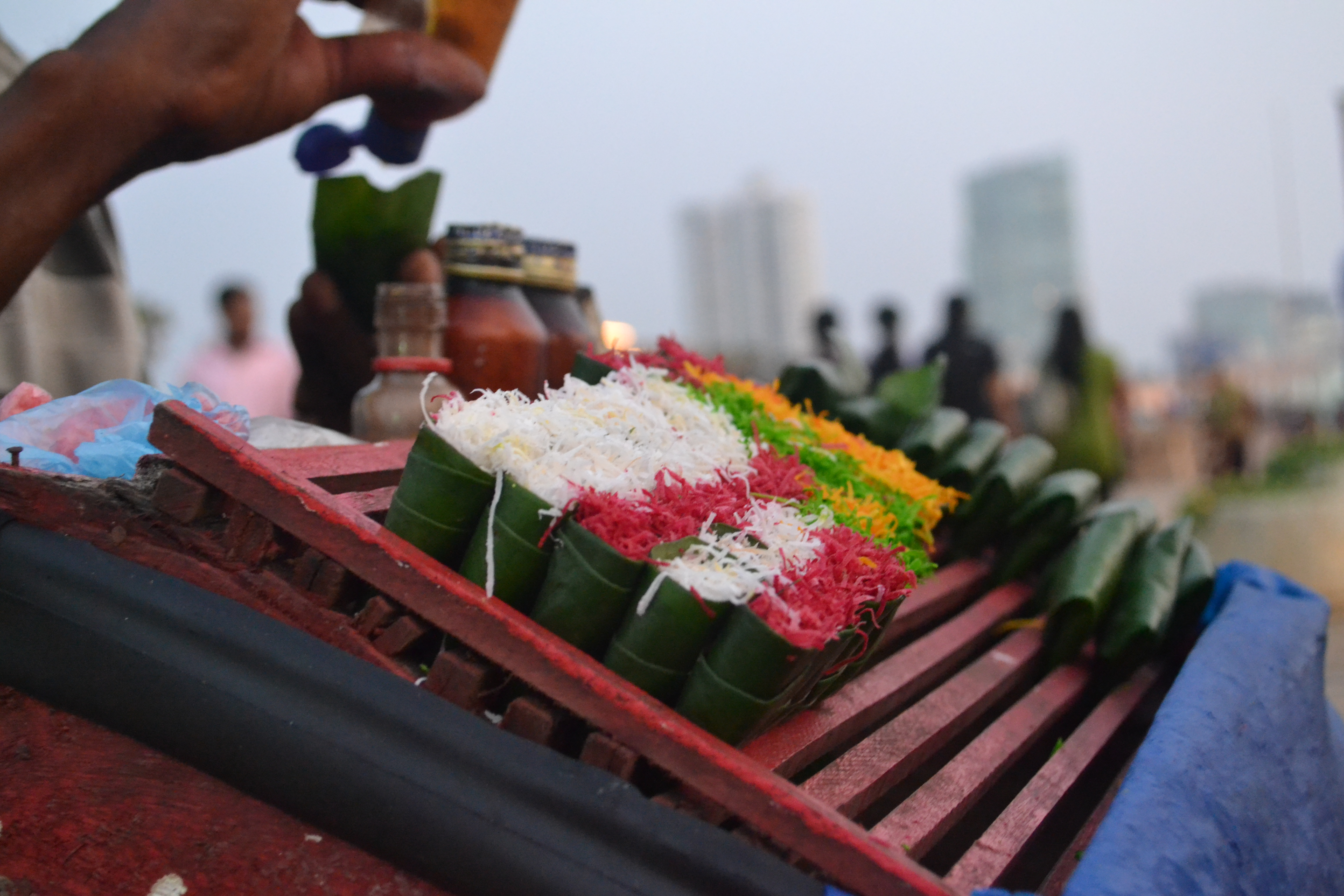 a Sweet Beeda, ready to eat, at Gallface Beach - Colombo